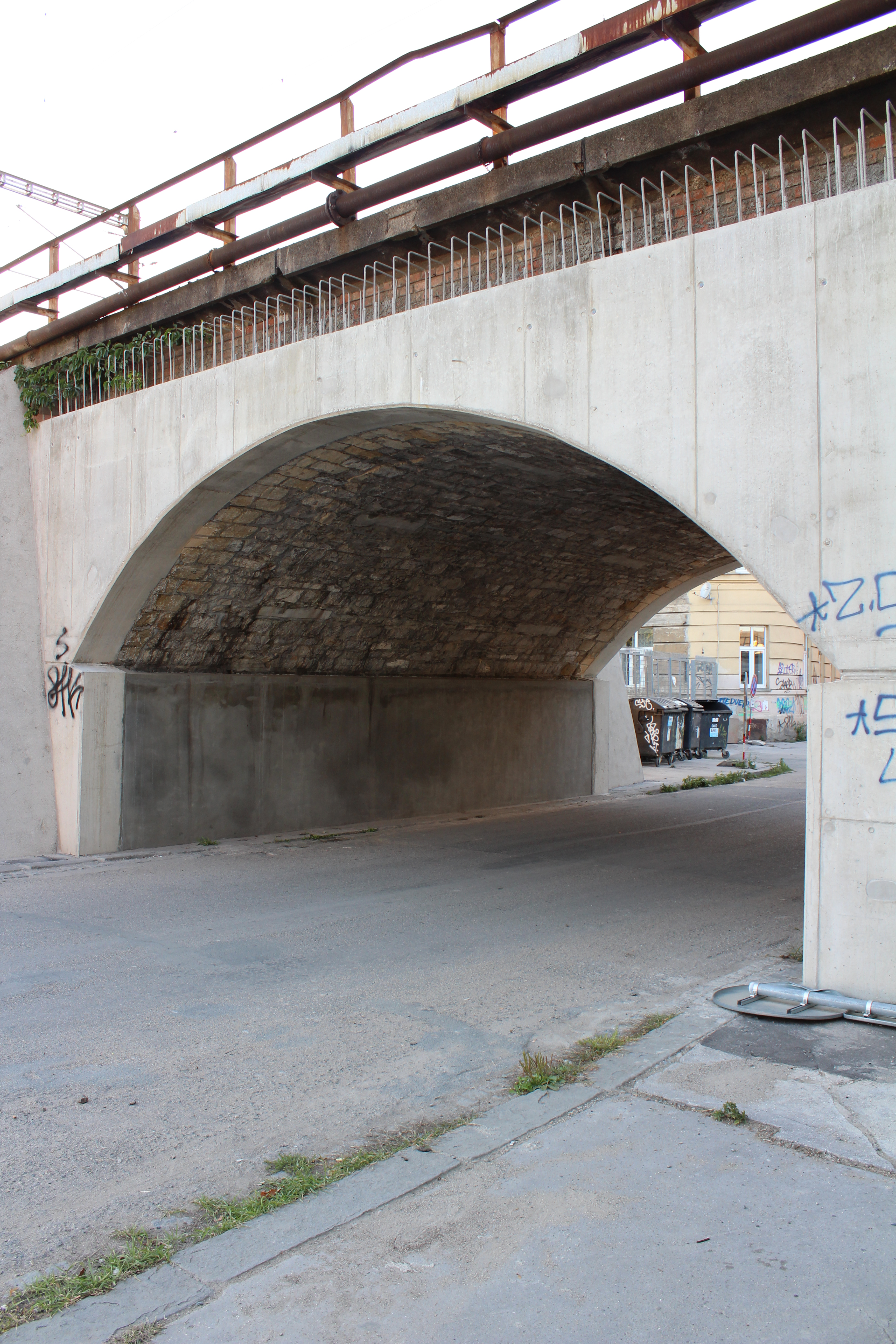 Železniční most přes Vlhkou, Brno, zesílené boční steny původního viadiktu